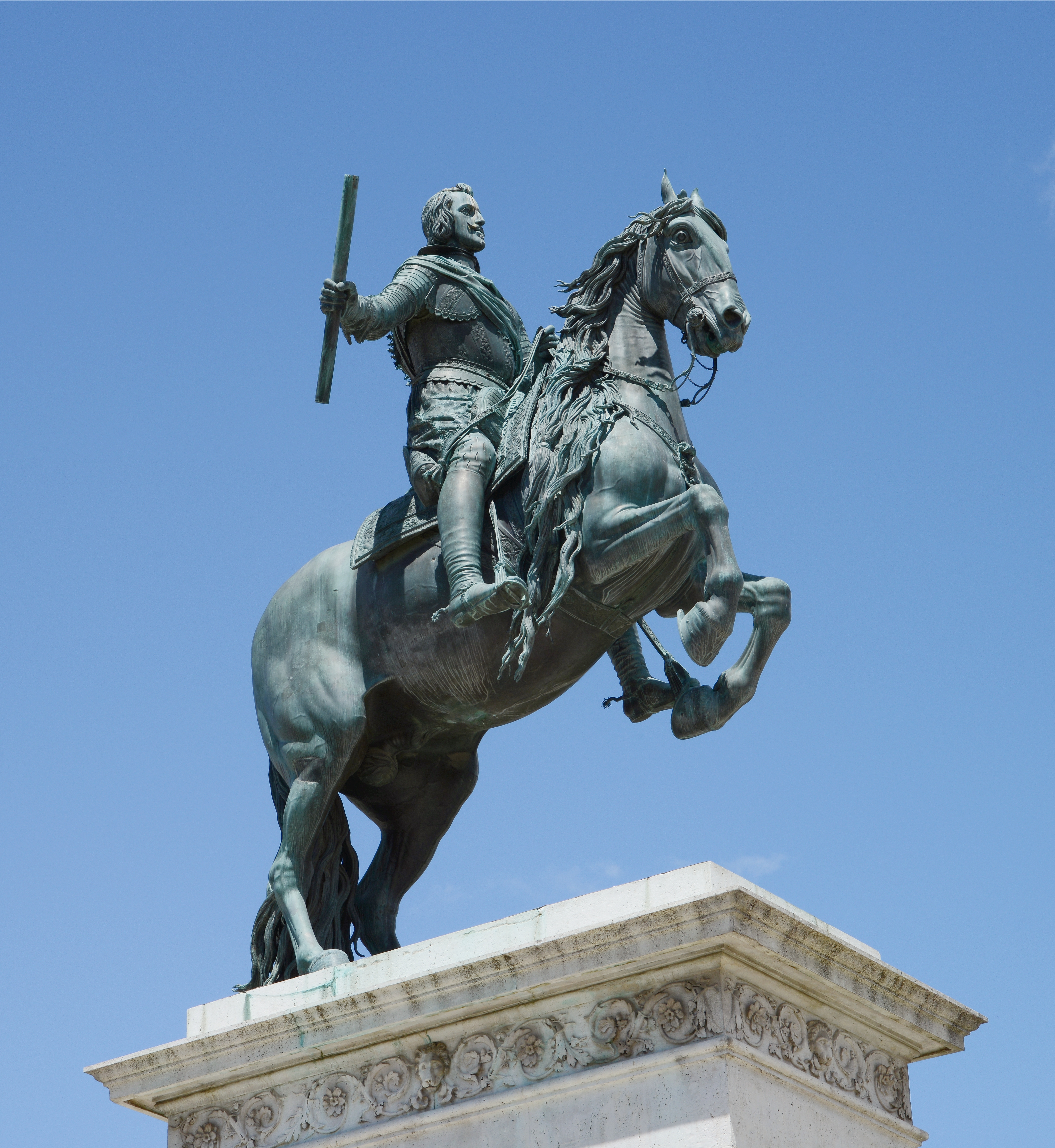 Equestrial statue of Filpe IV. Plaza de Oriente, Madrid, Spain